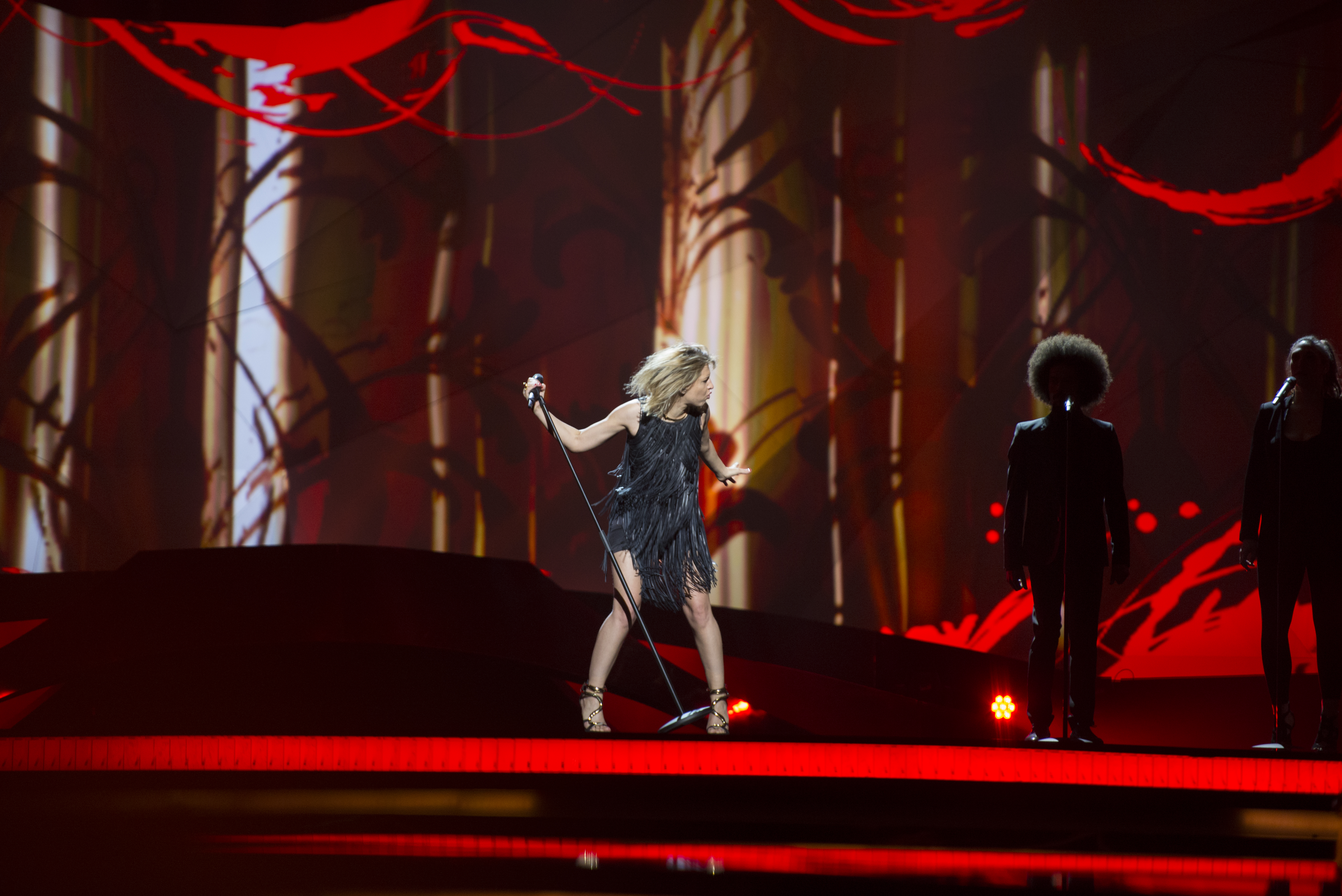 Amandine Bourgeois representing France with the song "L'enfer et moi" during the first dress rehearsal for "the Big Five" in the Eurovision Song Contest 2013 in Malmö. (Help translate this text)